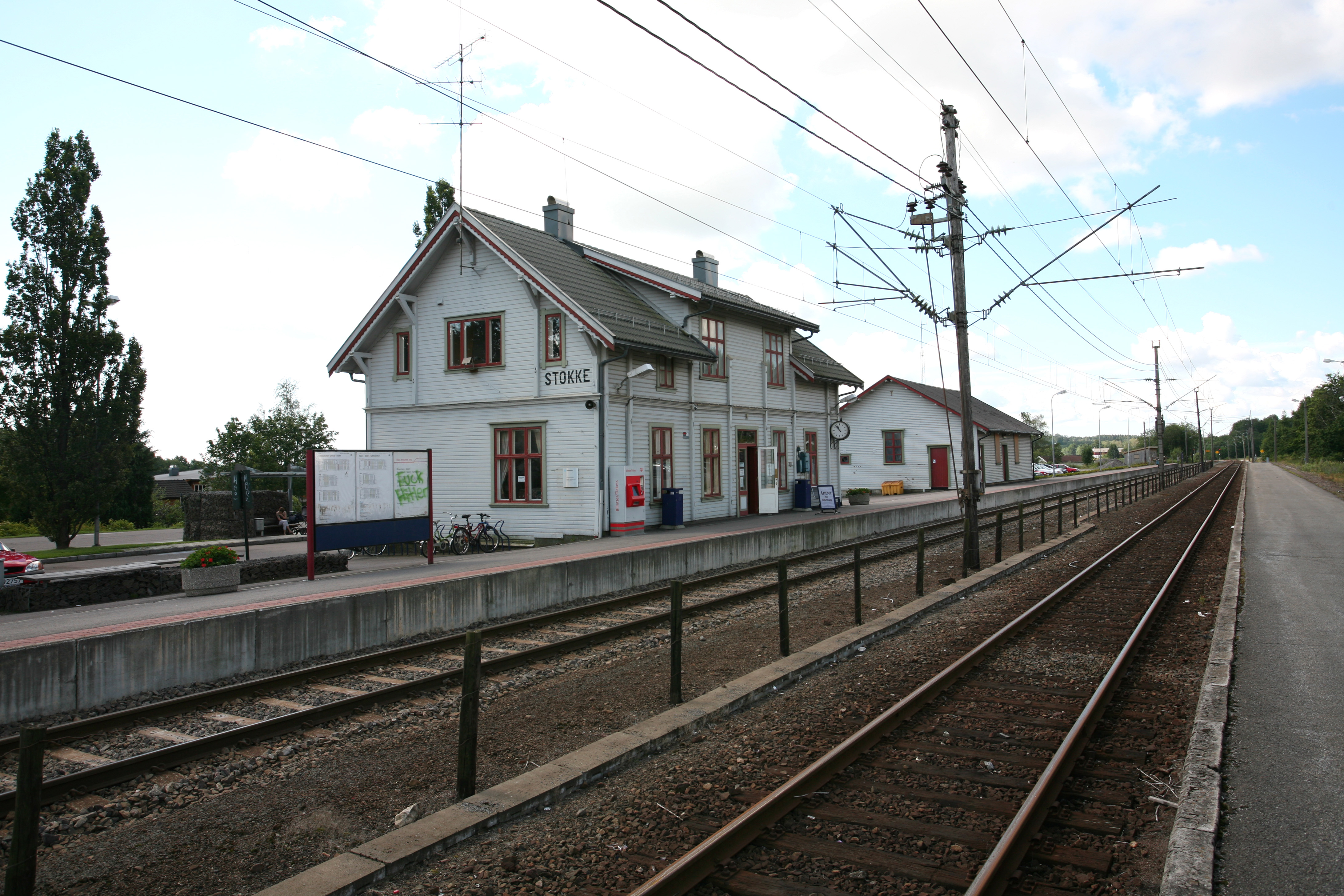 Picture of Stokke Railway Station (Norway)